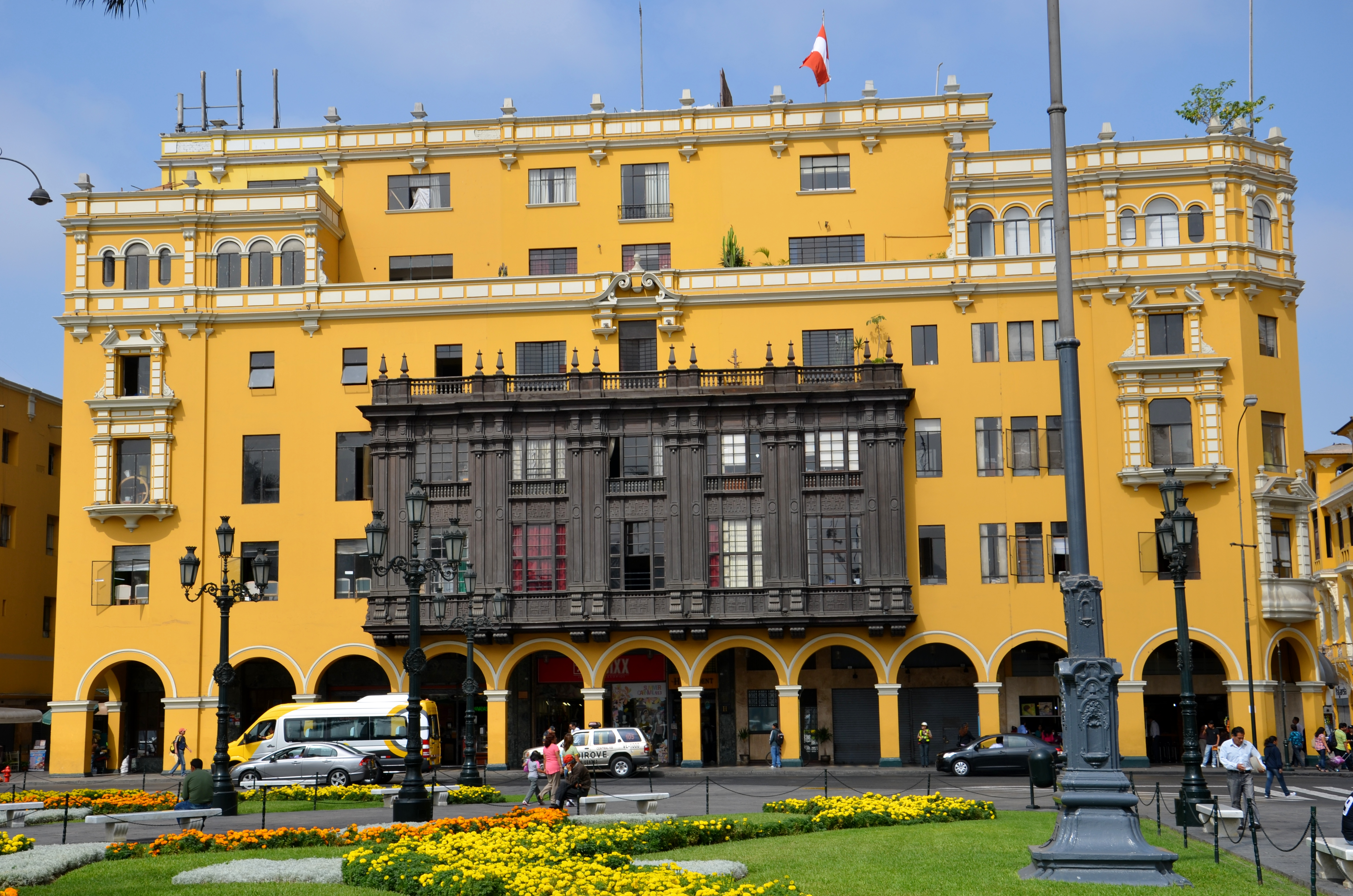 Lima, Peru - Plaza de Armas.